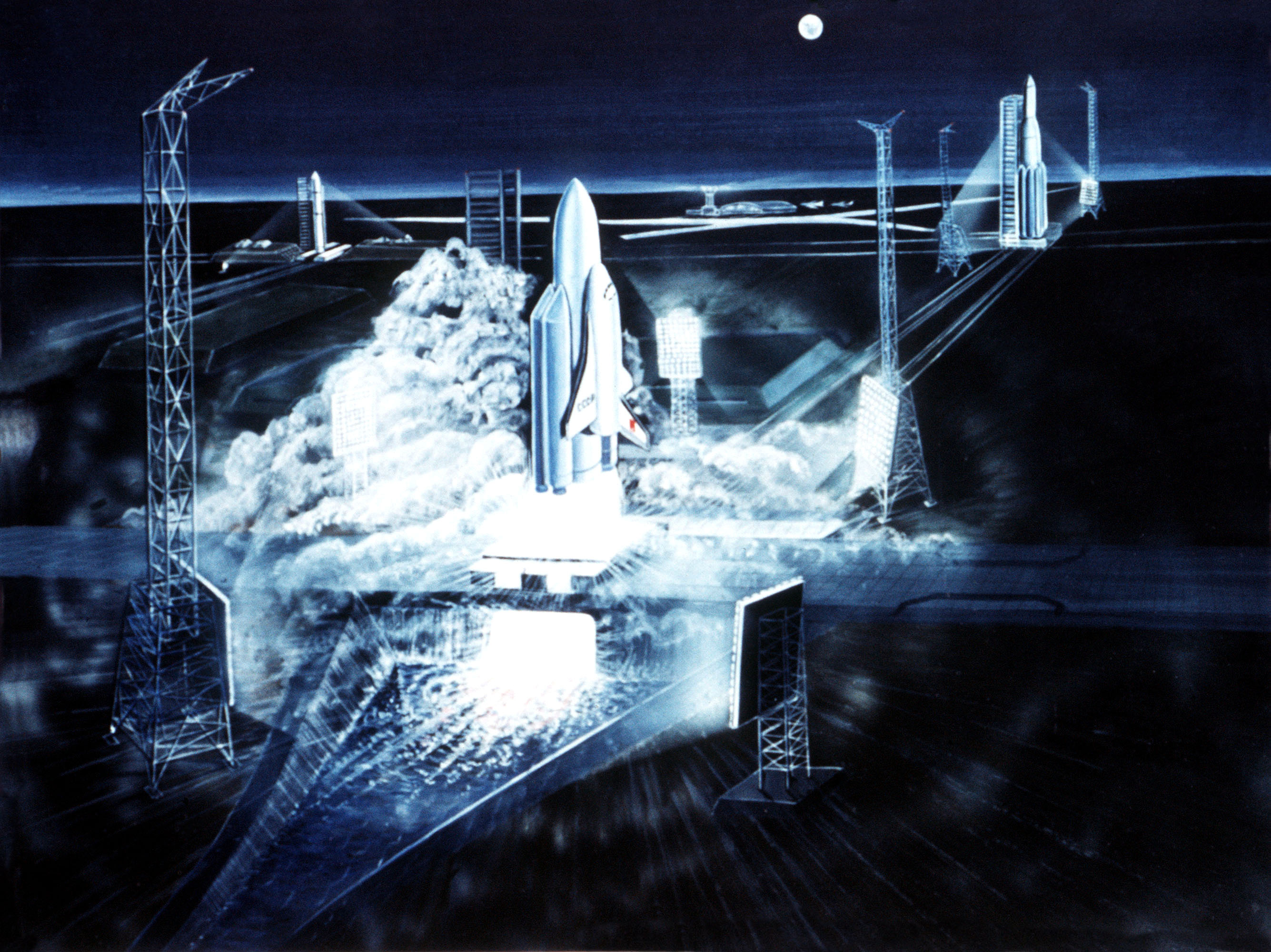 Tyuratam Space Assembly and Launch Complex. Courtesy of Soviet Military Power, 1984. Photo No. 118, pages 102 and 103.